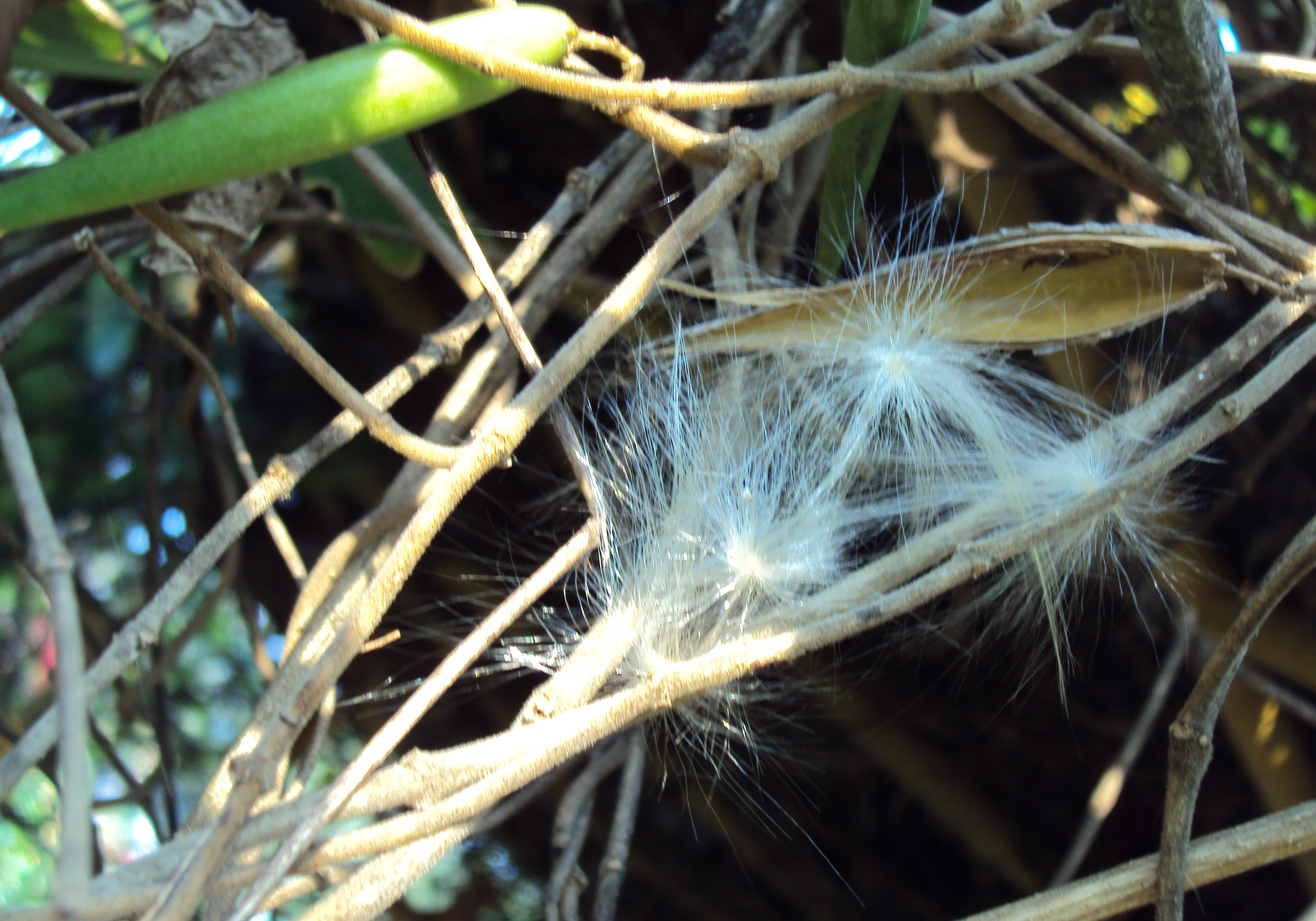 Gymnema sylvestre beans sending seeds out. ചക്കരക്കൊല്ലി